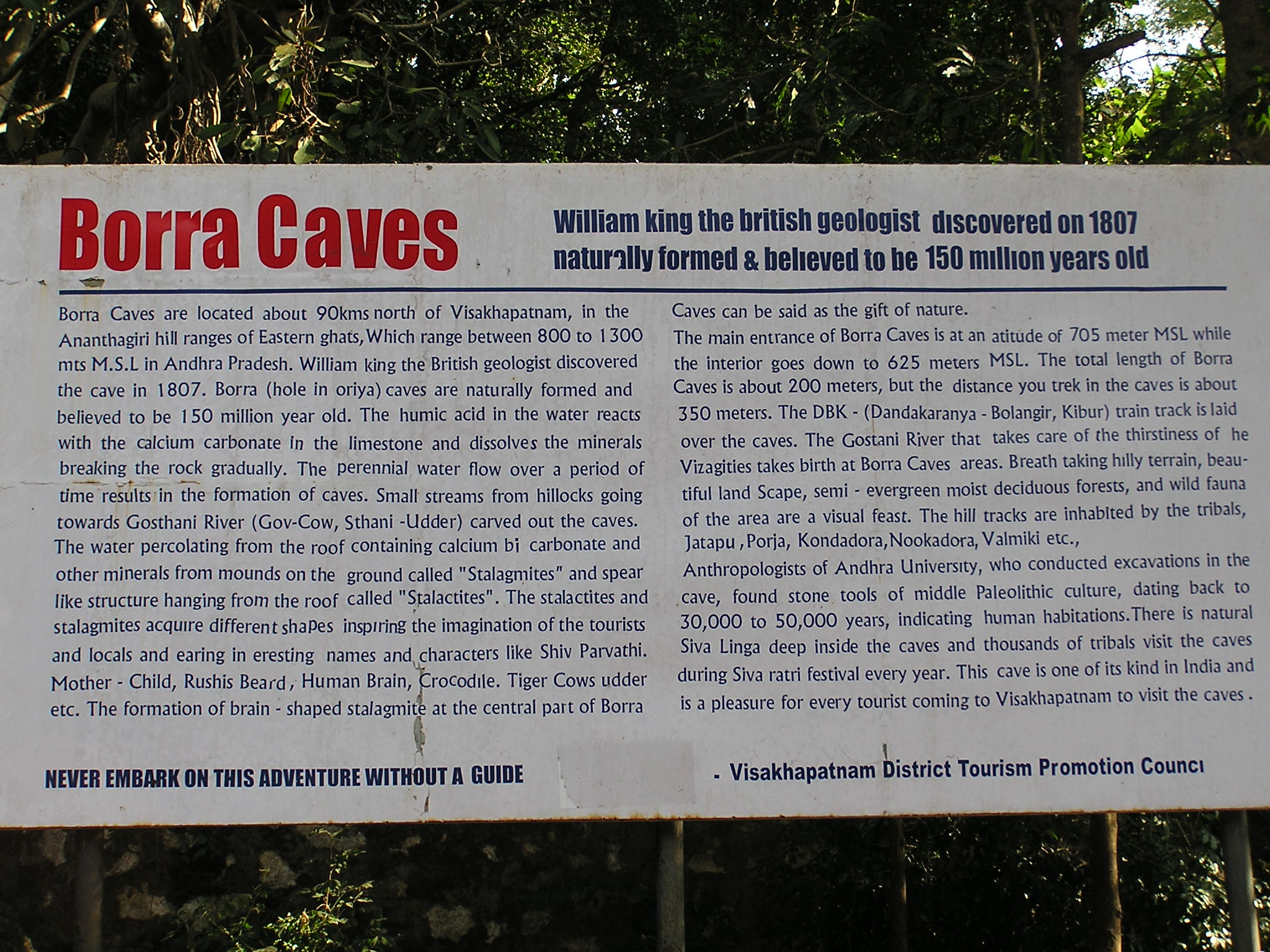 Picture of the Borra Caves Information Board